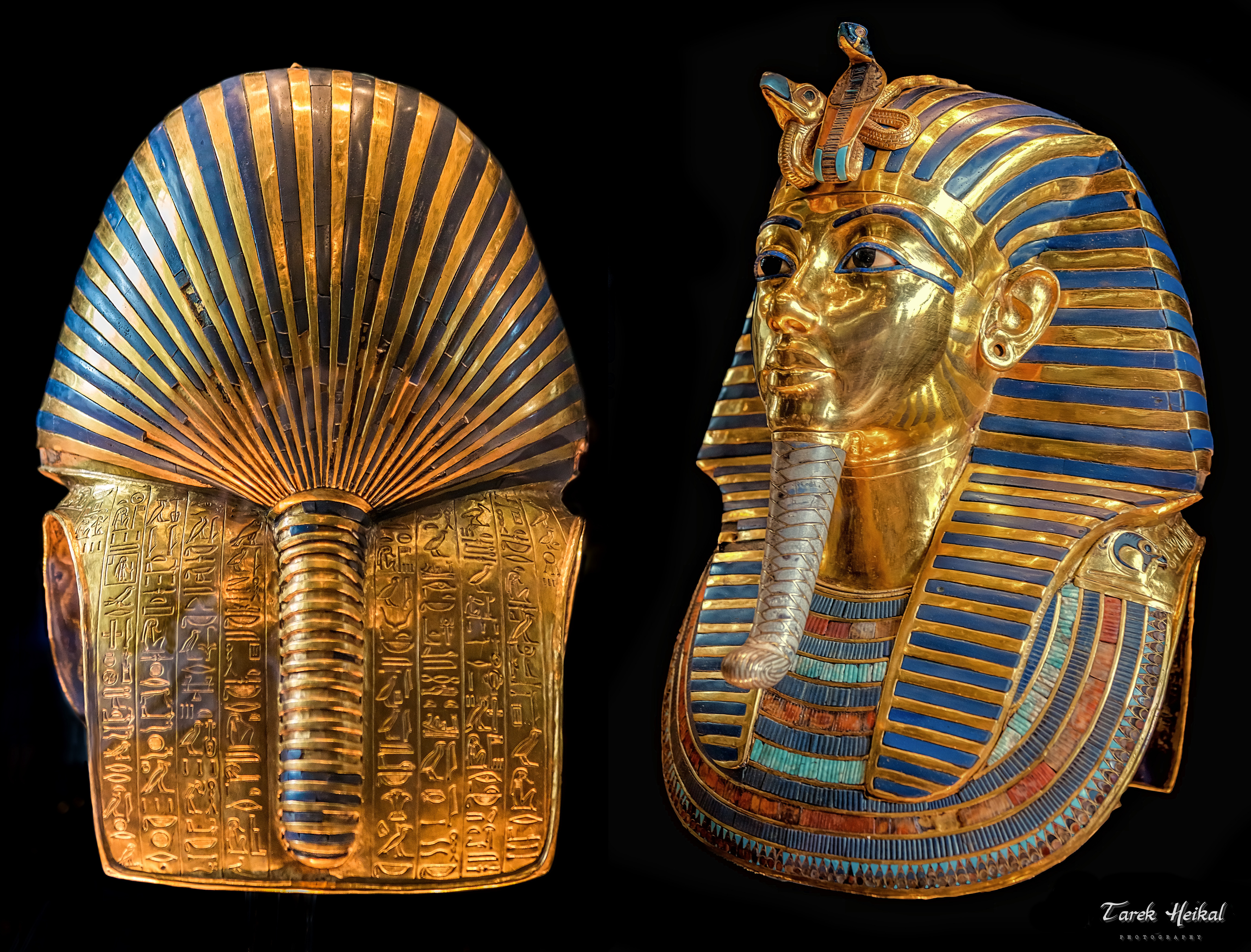 Tutankhamun's mask, or funerary mask of Tutankhamun, is the death mask of the 18th-dynasty Ancient Egyptian Pharaoh Tutankhamun